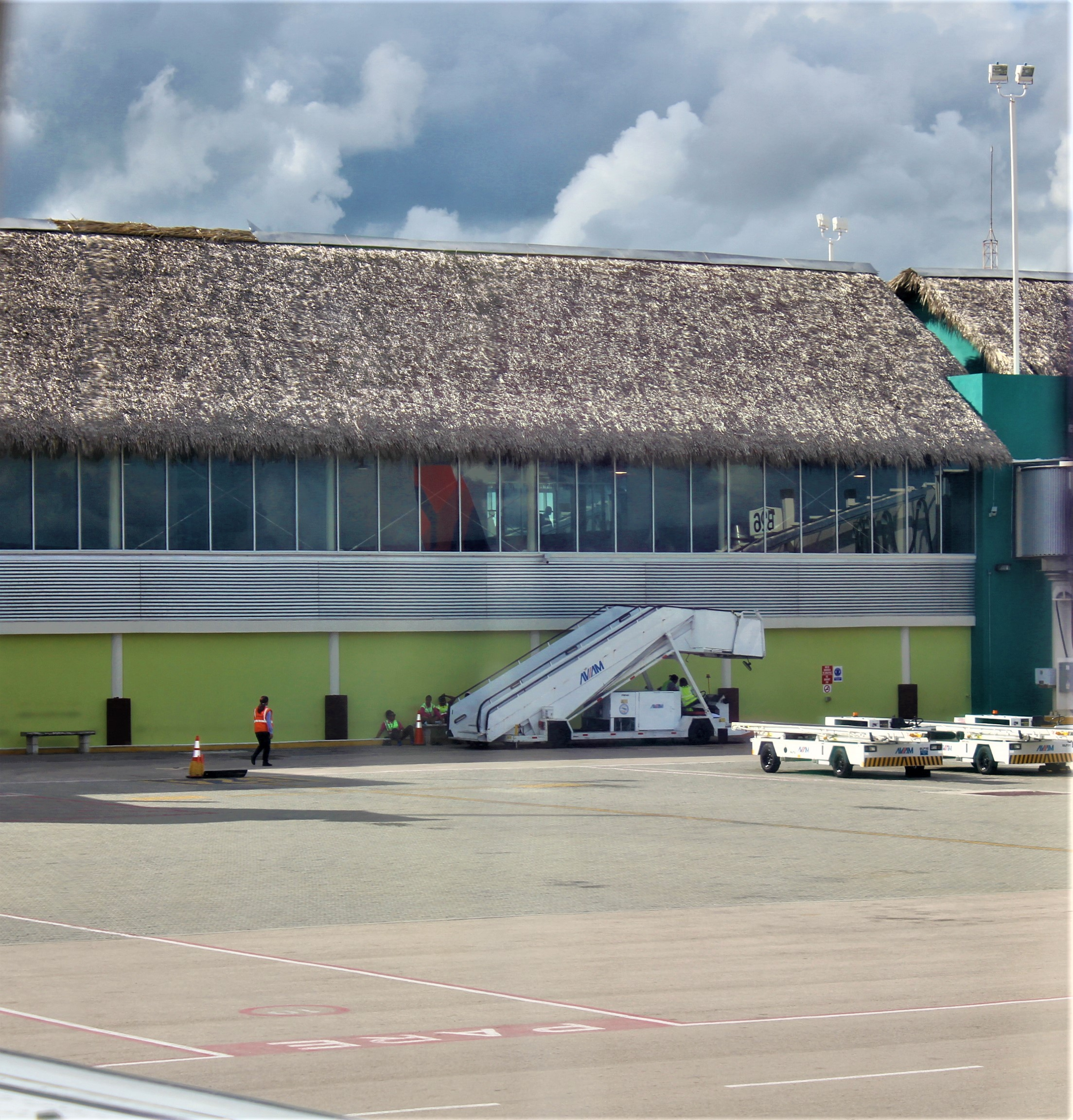 Punta Cana International Airport apron